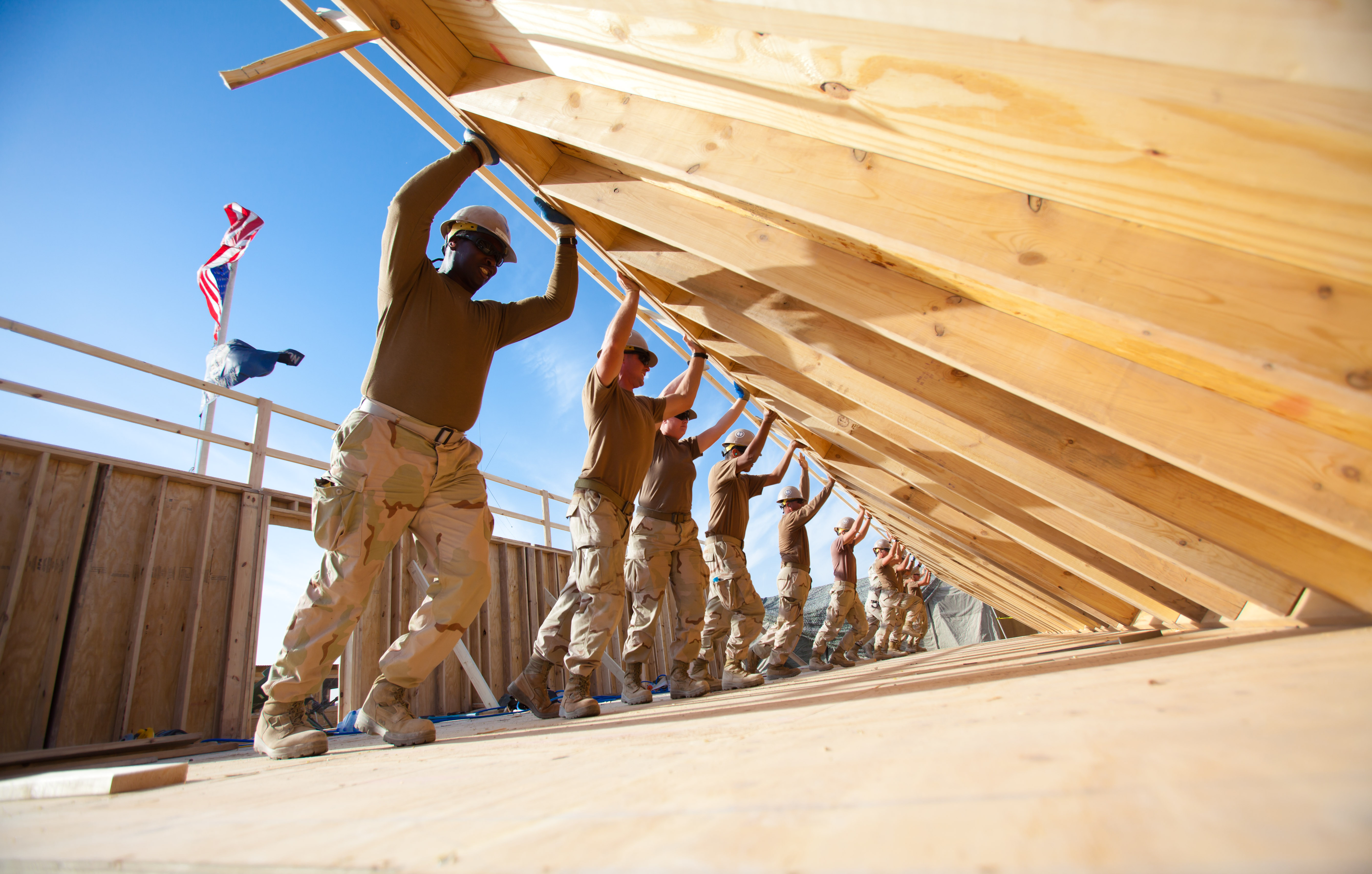 KANDAHAR, Afghanistan (Nov. 4, 2010) Seabees assigned to Naval Mobile Construction Battalion (NMCB) 18 erect an exterior wall for a Southwest Asian Hut at Kandahar Air Field. NMCB-18 is a reserve component battalion operating in the RC South Region of Afghanistan. (U.S. Navy photo by Utilitiesman 2nd Class Vuong Ta/Released)